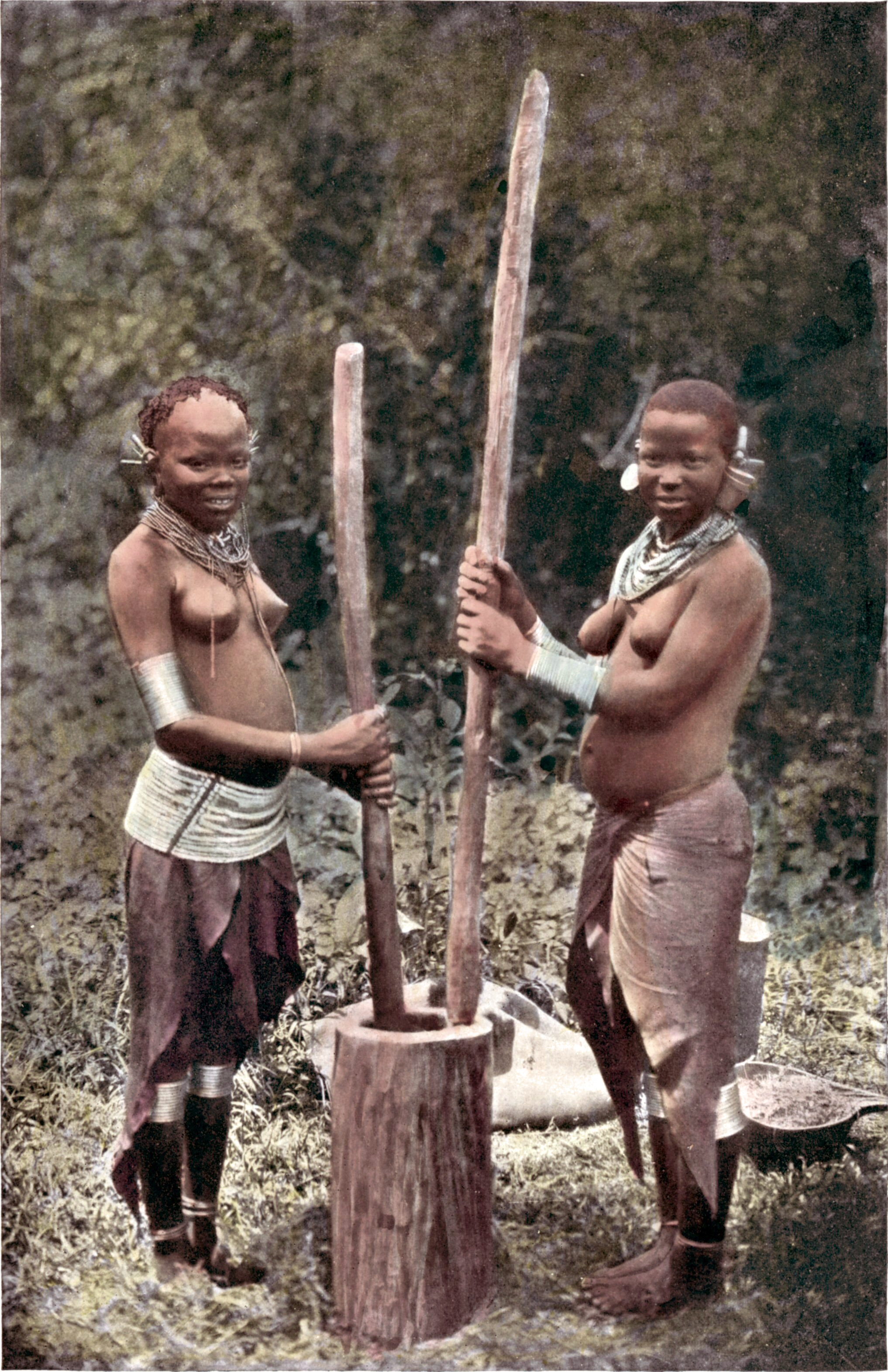 Kikuyu girls pounding grain. Showing the curious methods of ear distortion.